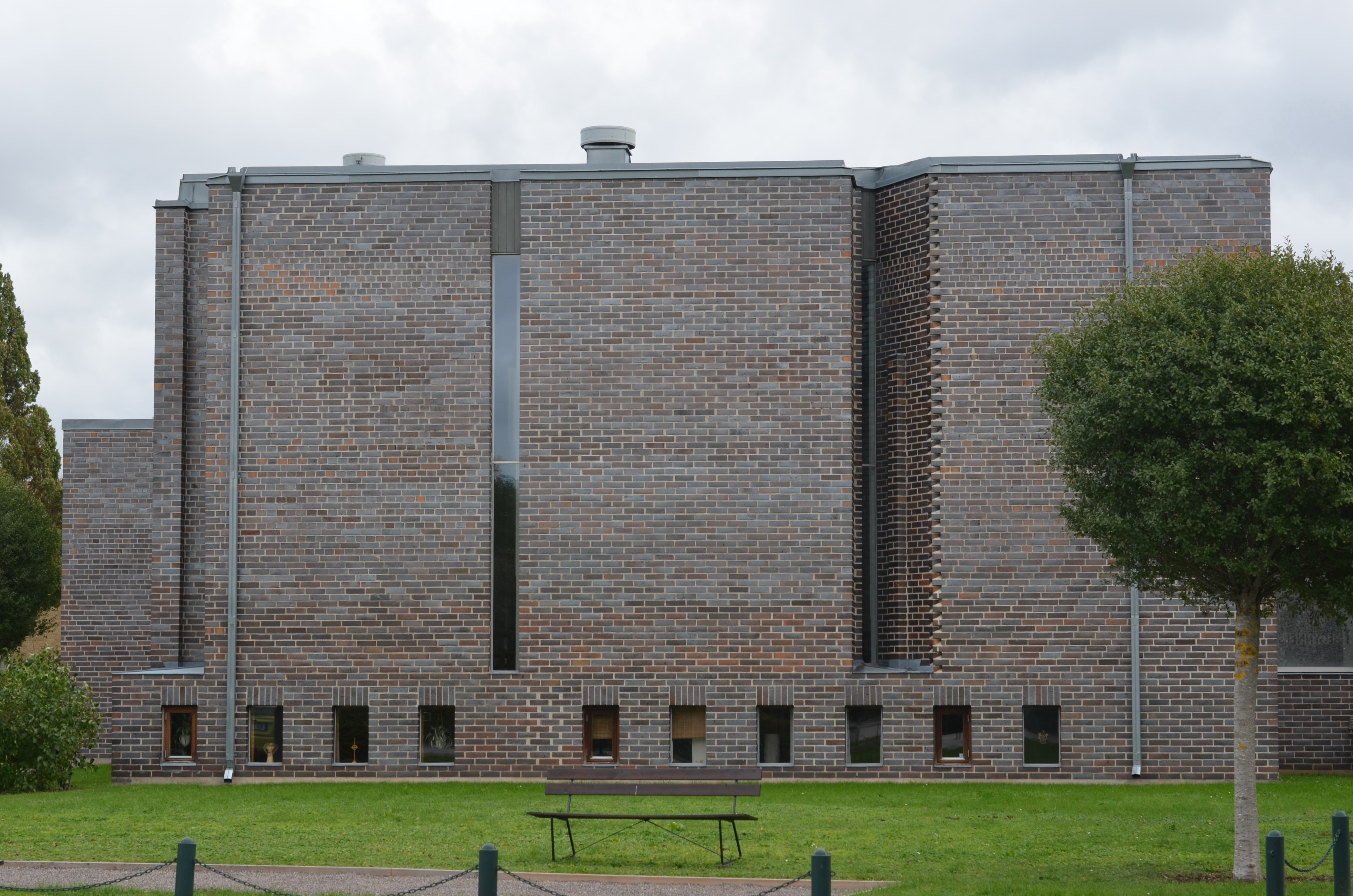 Visborg Church in Visby, southern facade